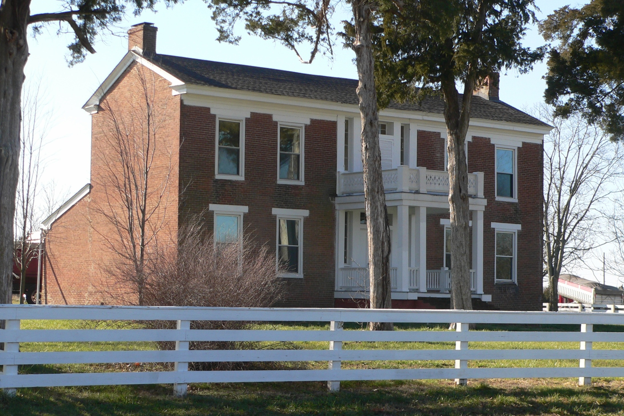 Baker Plantation House, located about half a mile east of Danville, Missour. The house faces generally north-northeast.